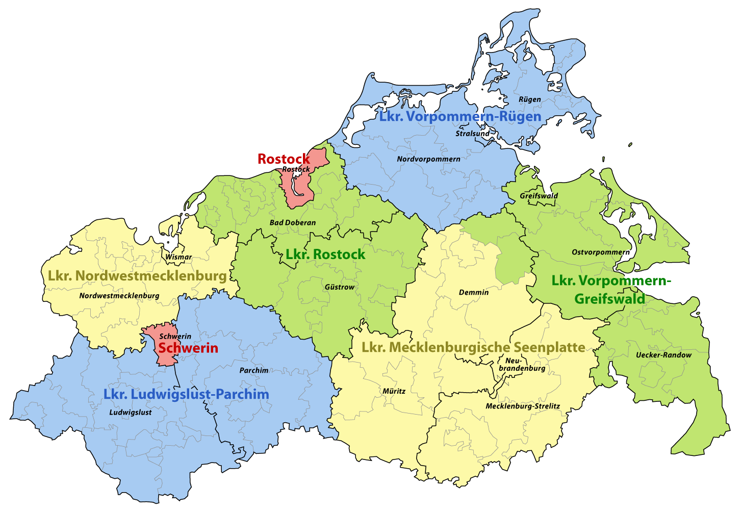 Changes in the counties of Mecklenburg-Western Pomerania in 2011